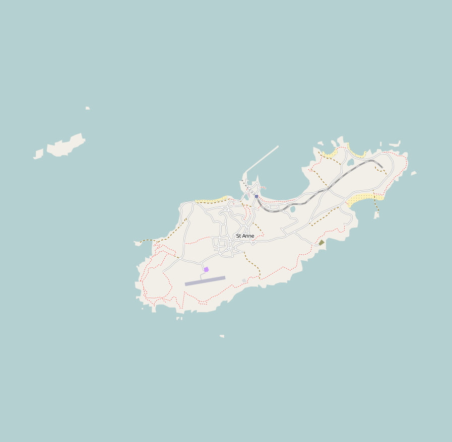 Map of Alderney Geographic limits of the map: N: 49.7563° S: 49.6784° W: -2.2704° E: -2.1473°